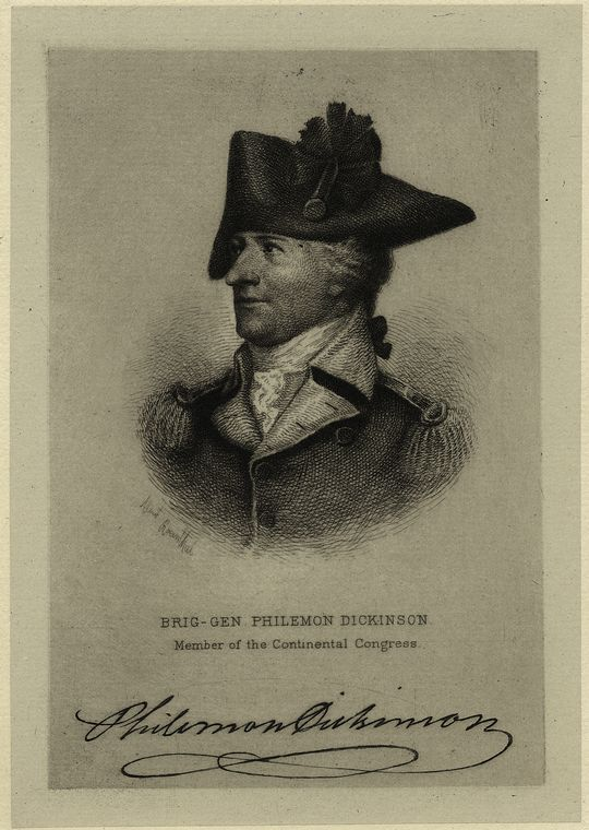 American Revolutionary War Brigadier General Philemon Dickinson